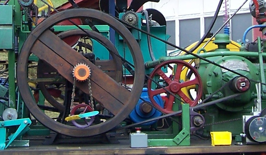 View of Gunderson's Do-All Machine (by M.A. Gunderson) showing the main line shaft and pulley from a corn grinder.